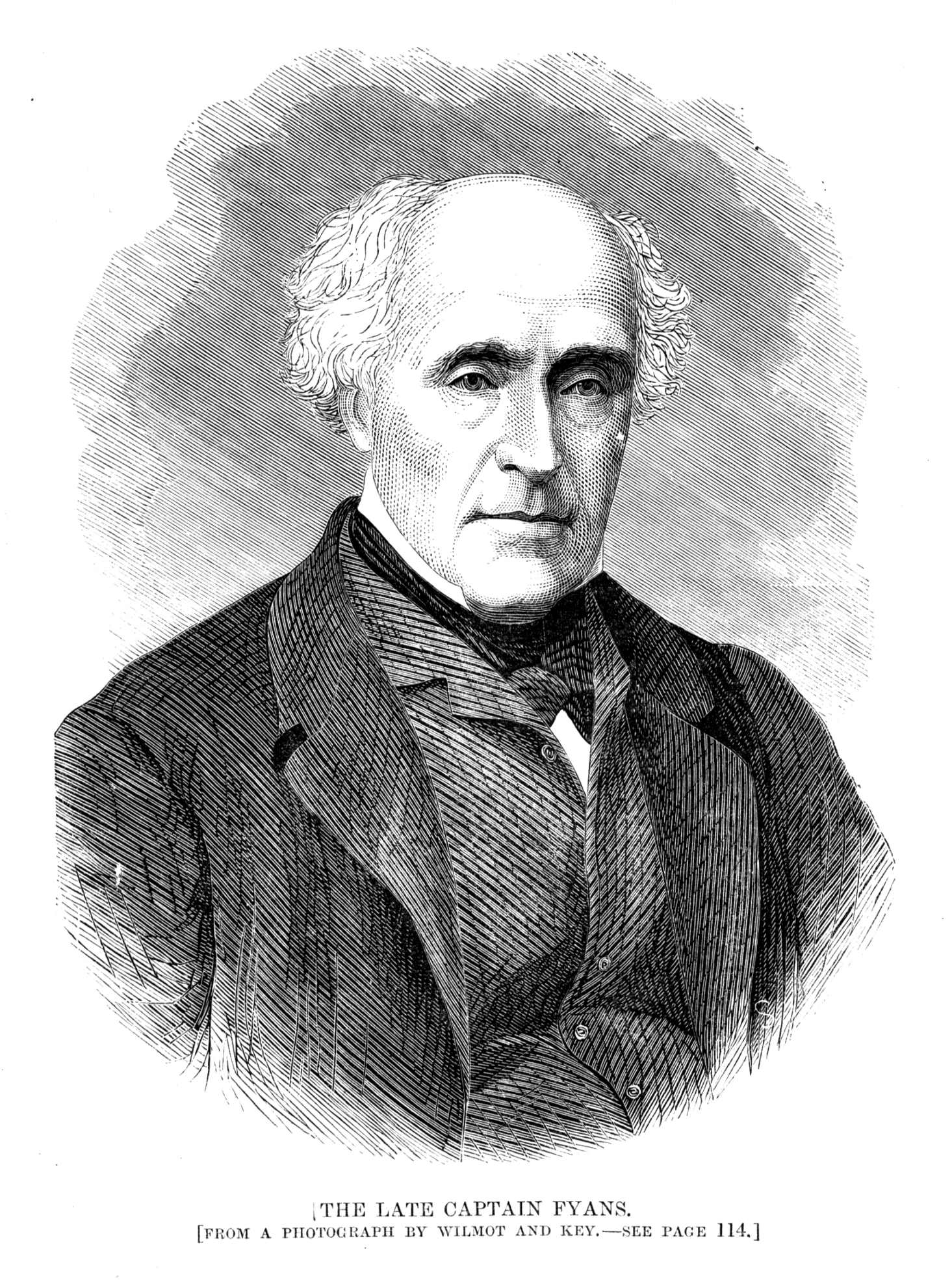 Captain Foster Fyans (1790–1870)